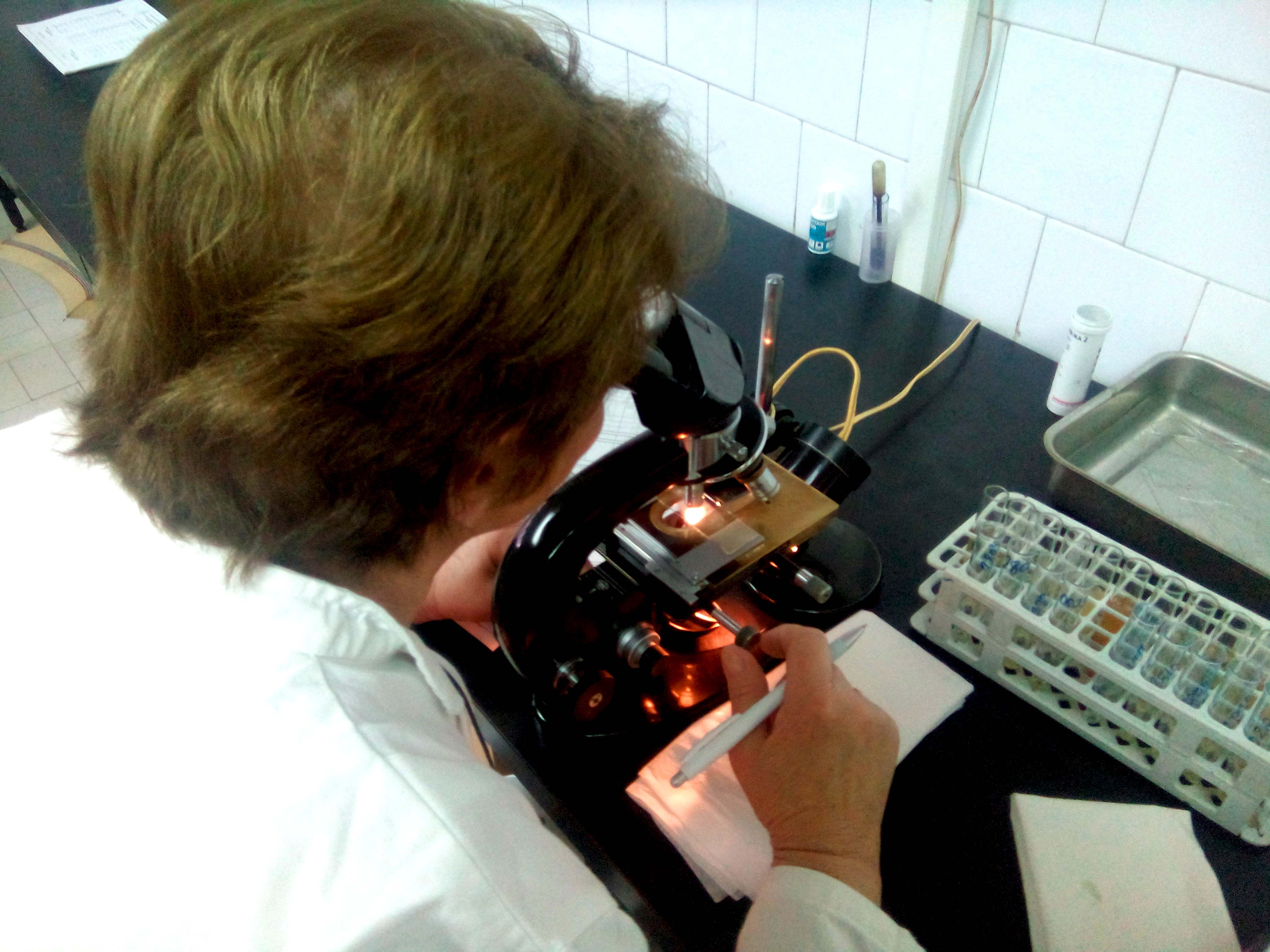 Microscopic observation in biochemical laboratory.